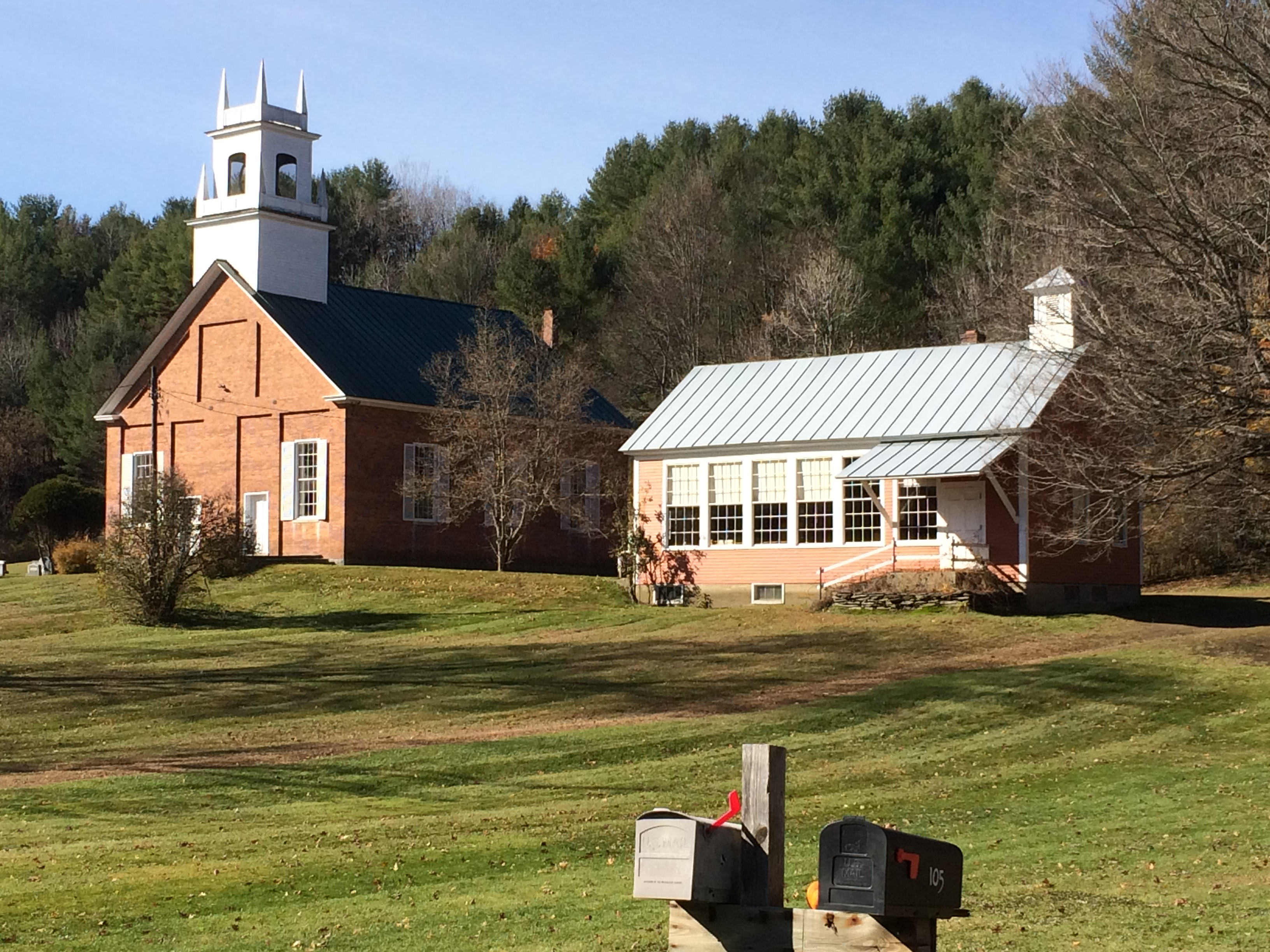 Union Village, Vermont: Methodist church and defunct School House. Fall 2015